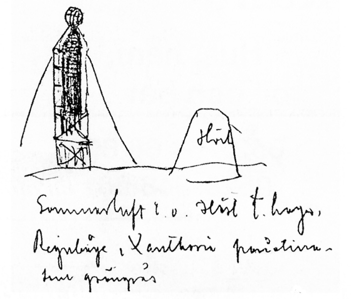 A Strindberg: Saltskärs landmark, Tanums kommun, Sweden